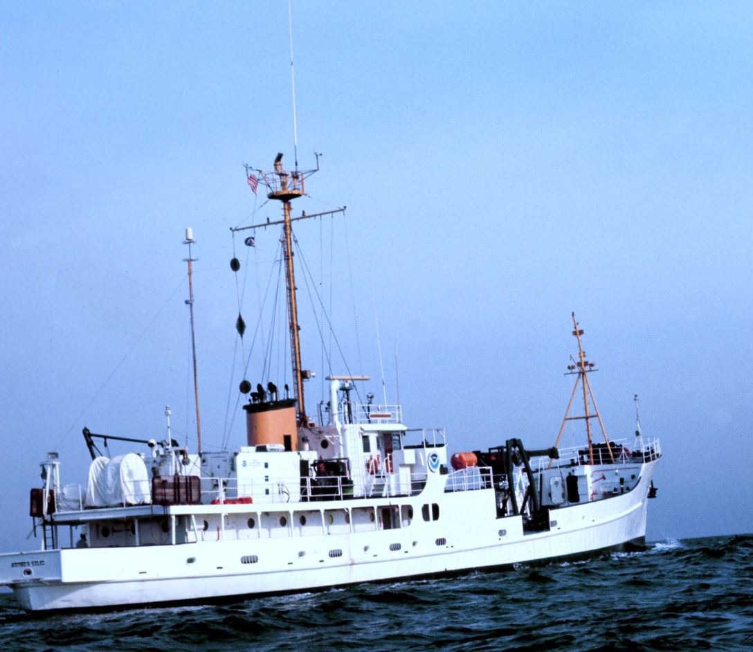 The U.S. National Oceanic and Atmospheric Administration oceanographic research ship NOAAS George B. Kelez (R 441)